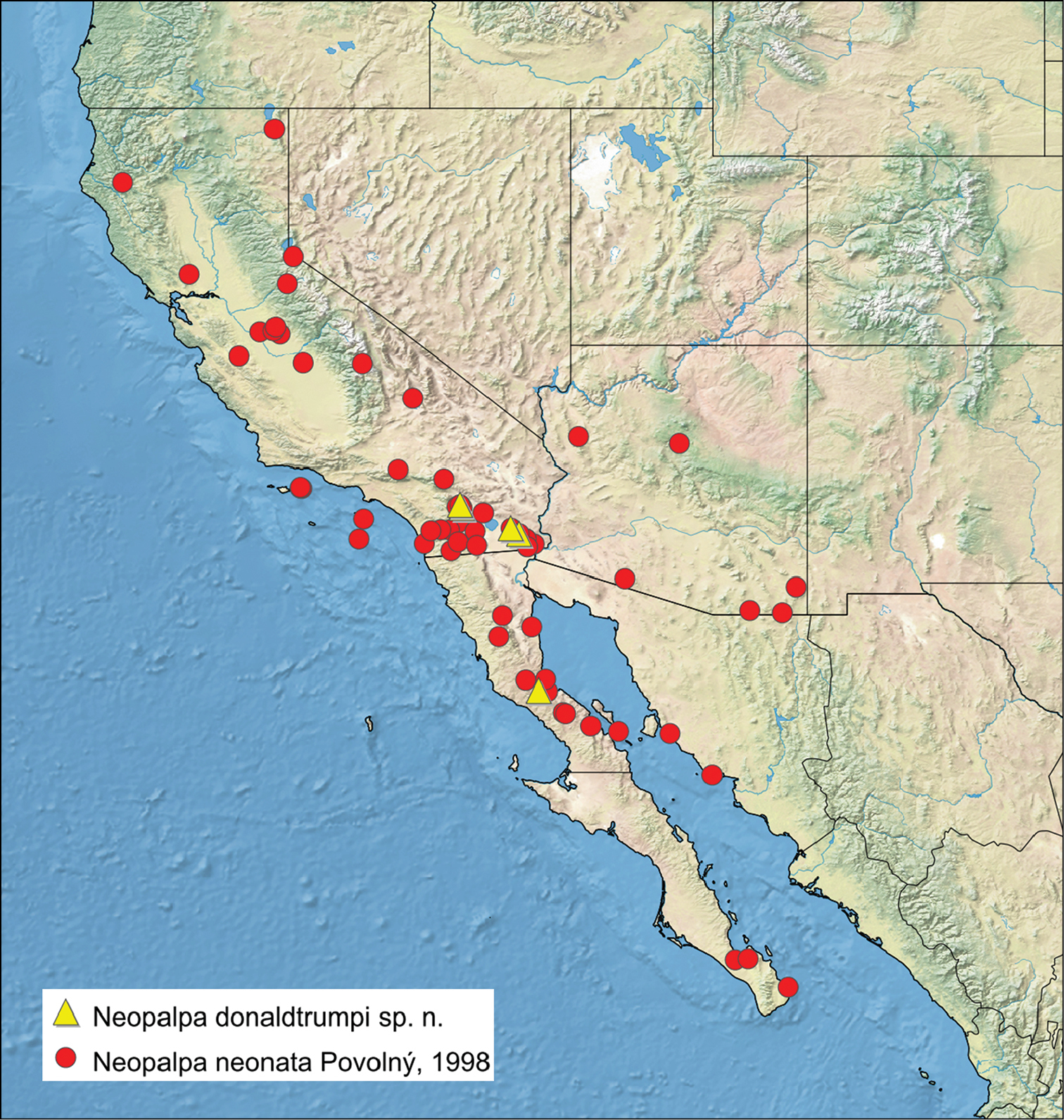 Distribution of Neopalpa neonata and Neopalpa donaldtrumpi